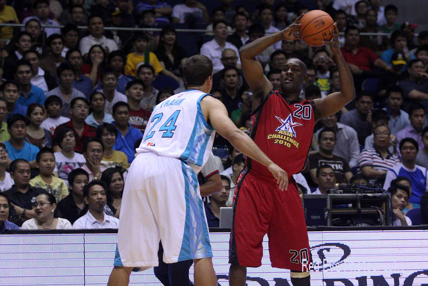 Gary Paton playing in the NBA Asia Challenge 2010 in the Philippines.